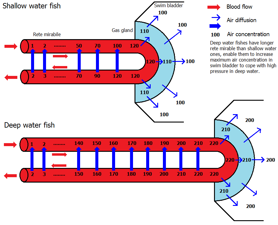 Simplified diagram showing how gas was pumped into swim bladder in the case of deep and shallow water fishes. (English)